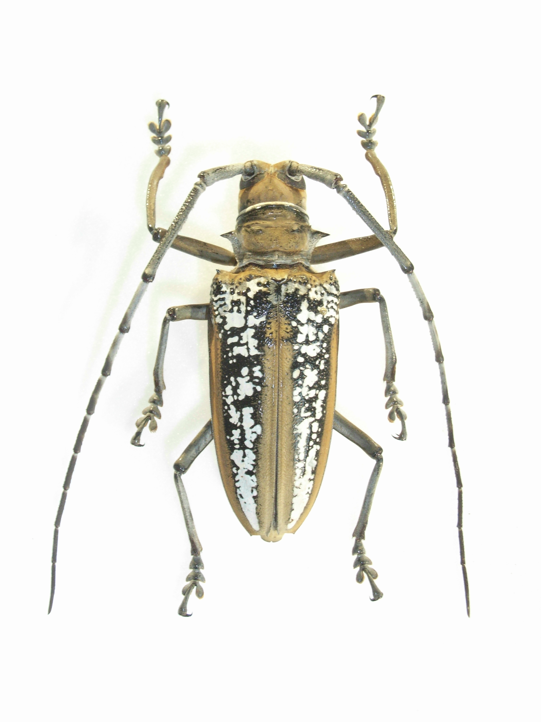 Batocera wallacei Thomson, 1858 Ex coll. Felix Stumpe